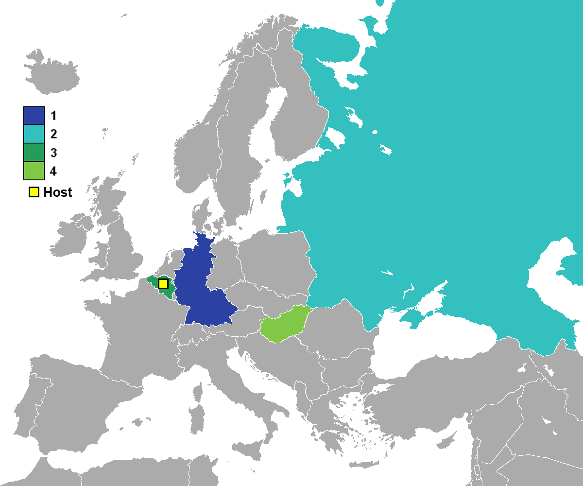 UEFA European Football Championship 1972 final team ranking, showing: Winner (dark blue) Runner-up (light blue) 3rd (dark green) 4th (light green) Yellow square is host nation (Belgium).